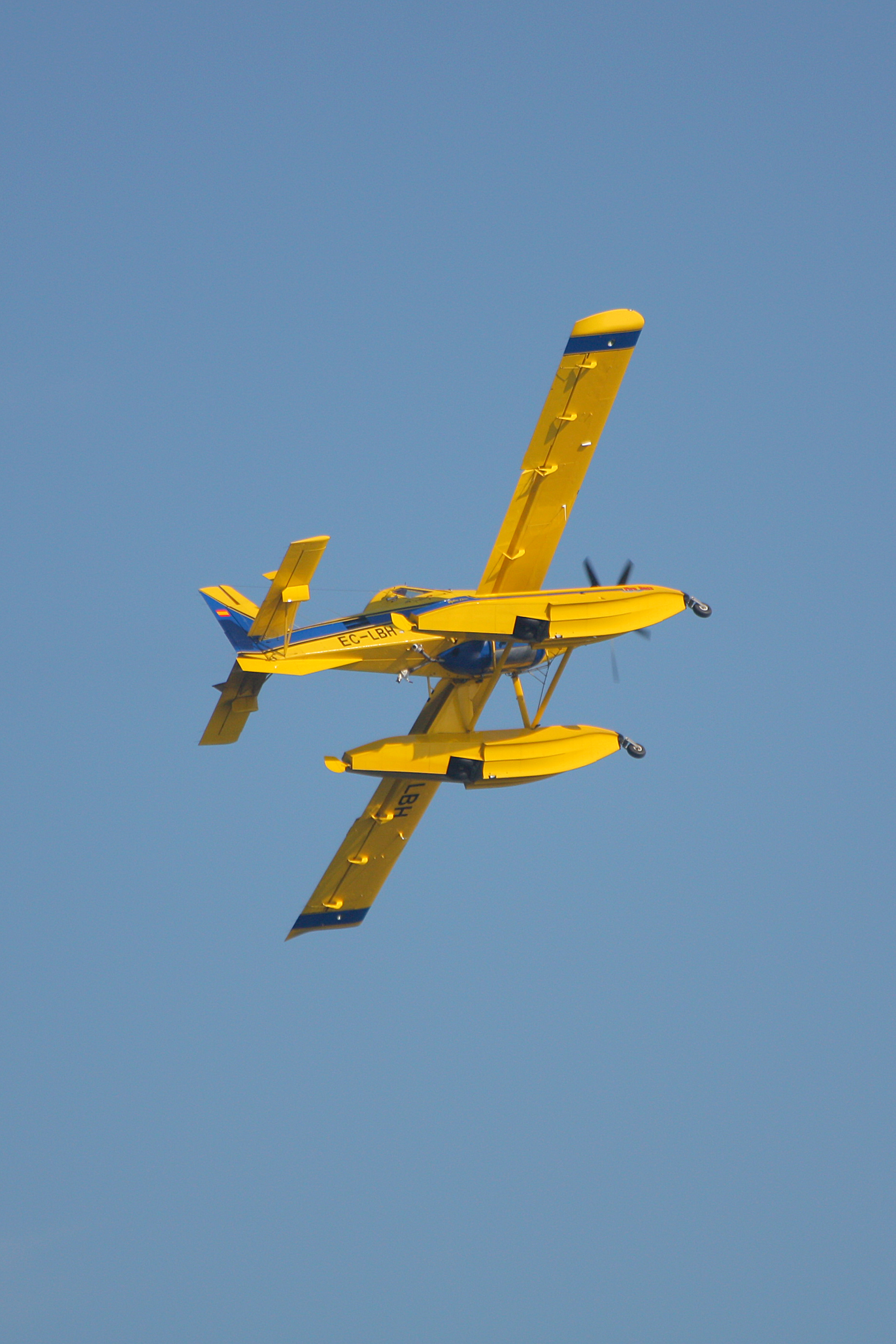 Air Tractor 802F "Fire Boss"